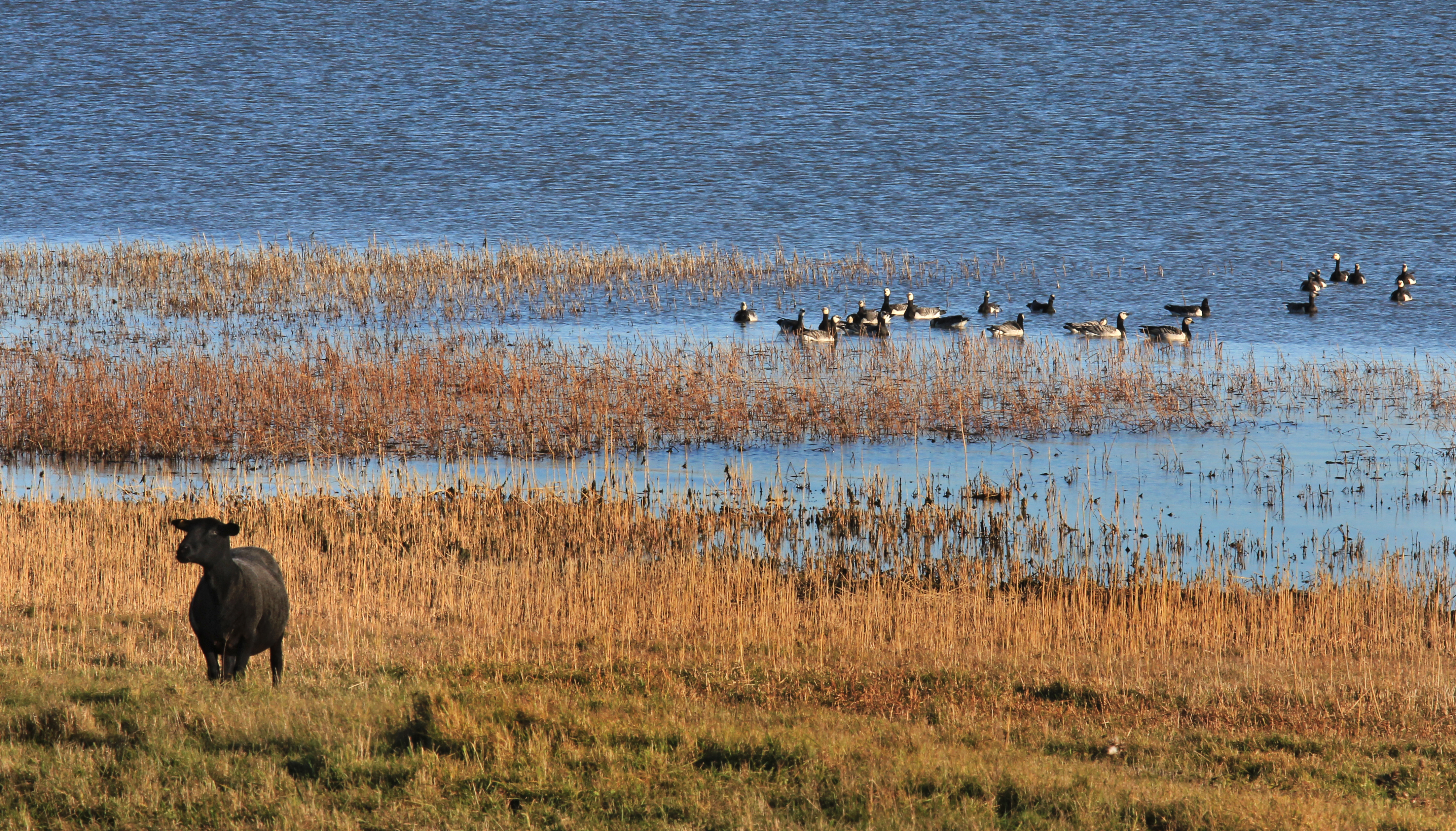 Black sheep and flock of Branta leucopsis.